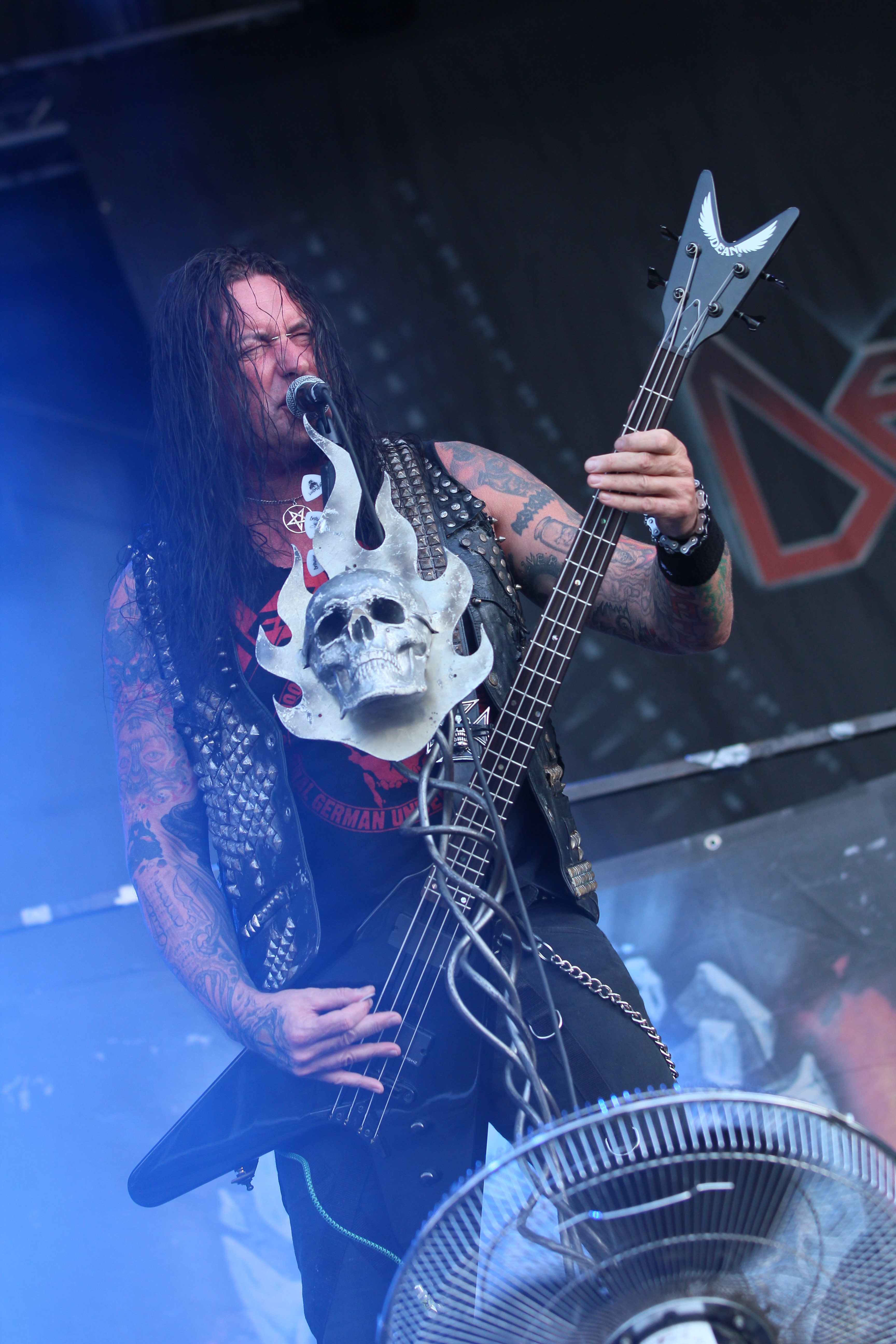 The German thrash metal band Destruction at the Rockharz Open Air 2014 in Ballenstedt/Germany